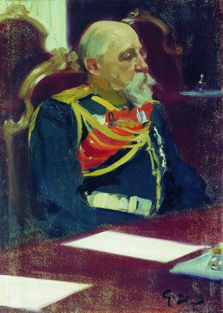 Portrait of the Governor-General of Finland and member of State Council Nikolai Ivanovich Bobrikov. Study for the picture Formal Session of the State Council